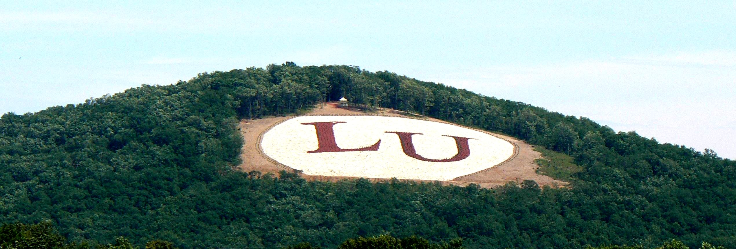 Monogram of Liberty University on side of Candlers Mtn.; Lynchburg VA.